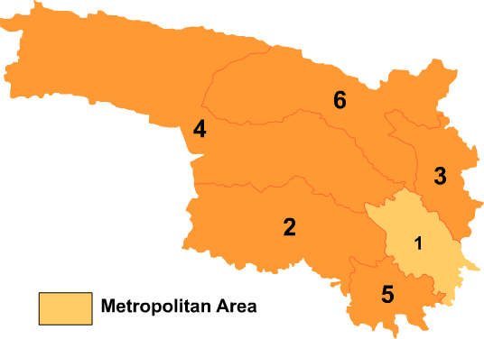 Map of Yushu in Qinghai province.